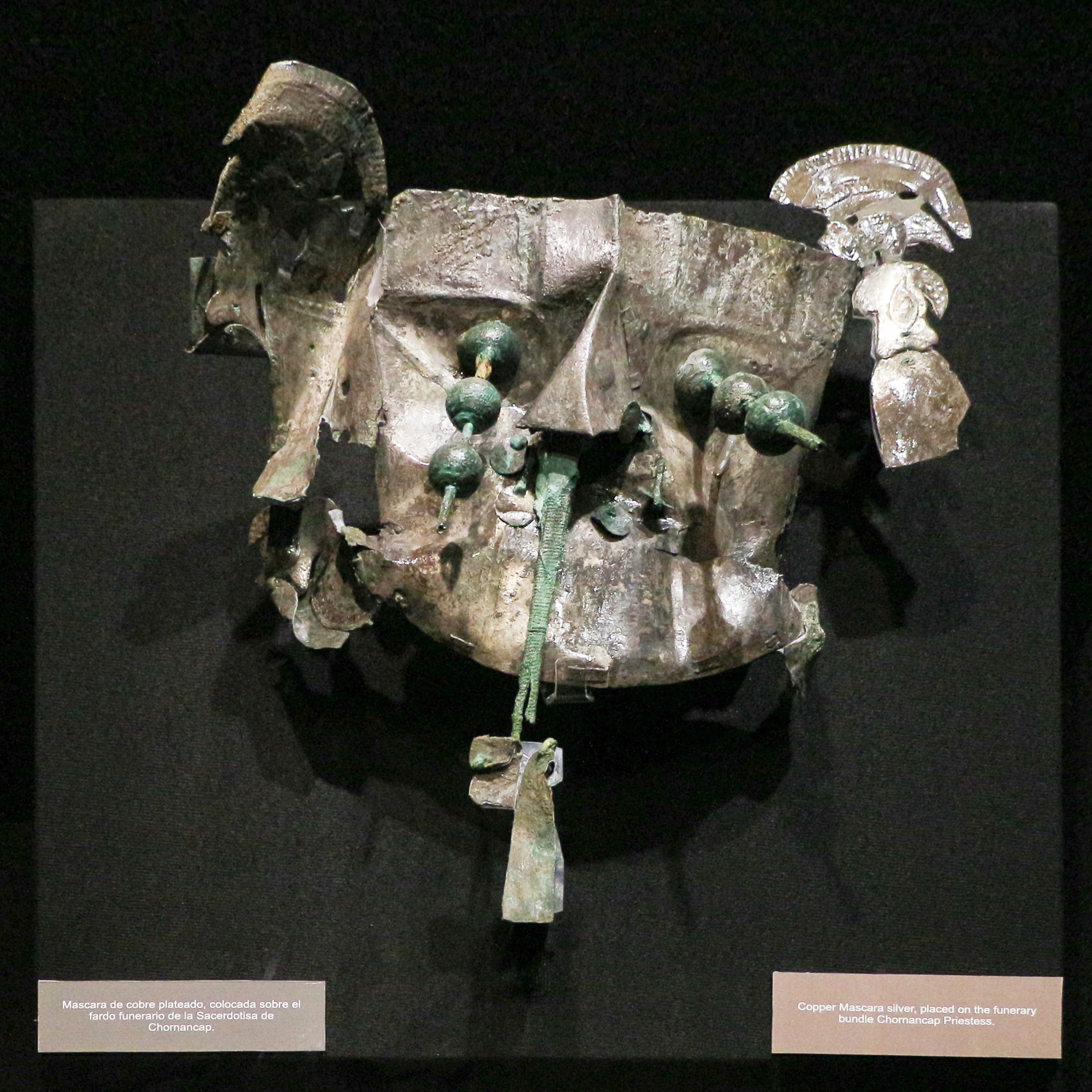 Funerary mask found in Chornancap Priestess tomb, Brüning Museum, Lambayeque, Peru